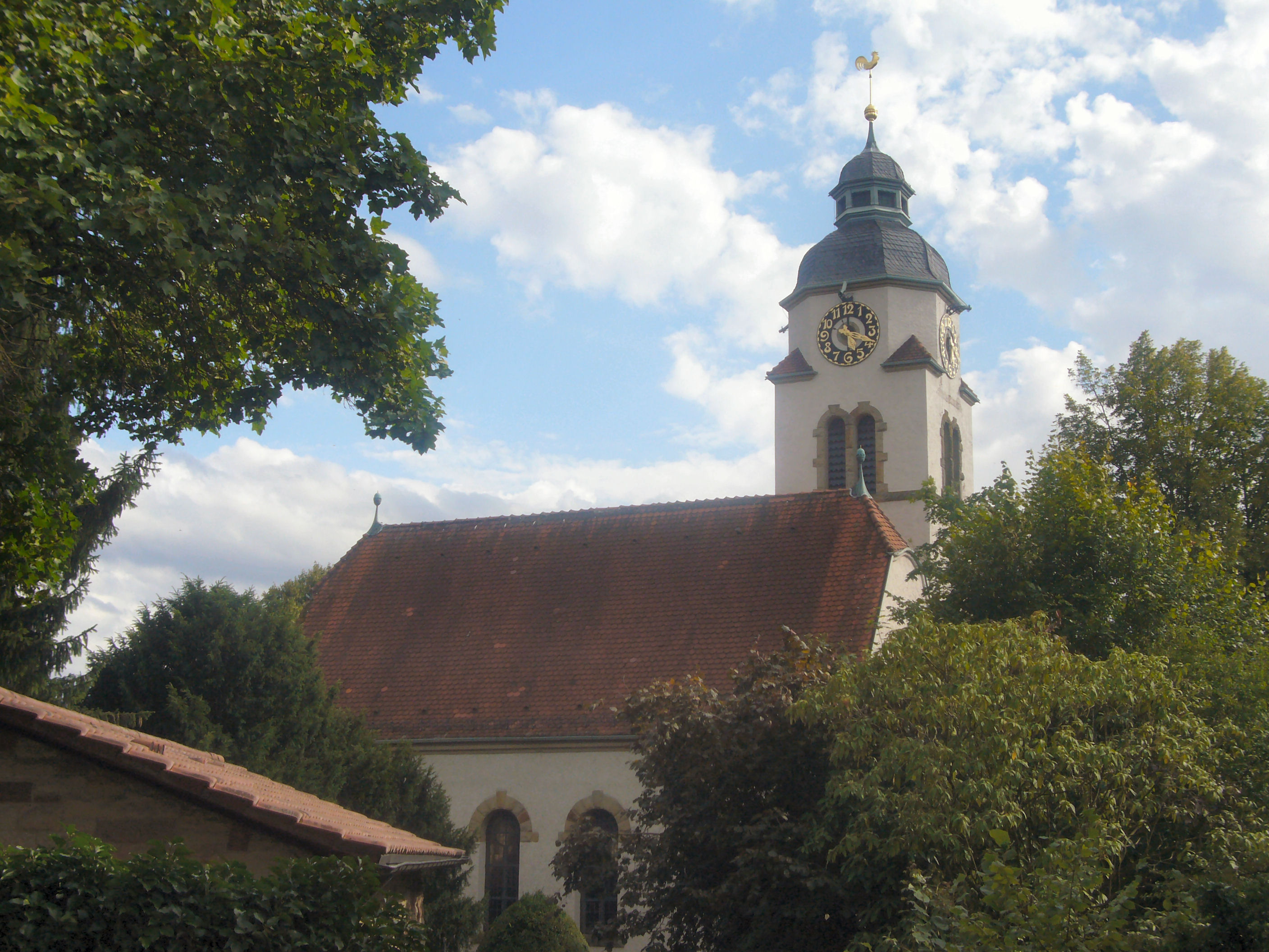 Christian church of Metterzimmern, village next to Bietigheim-Bissingen, Germany